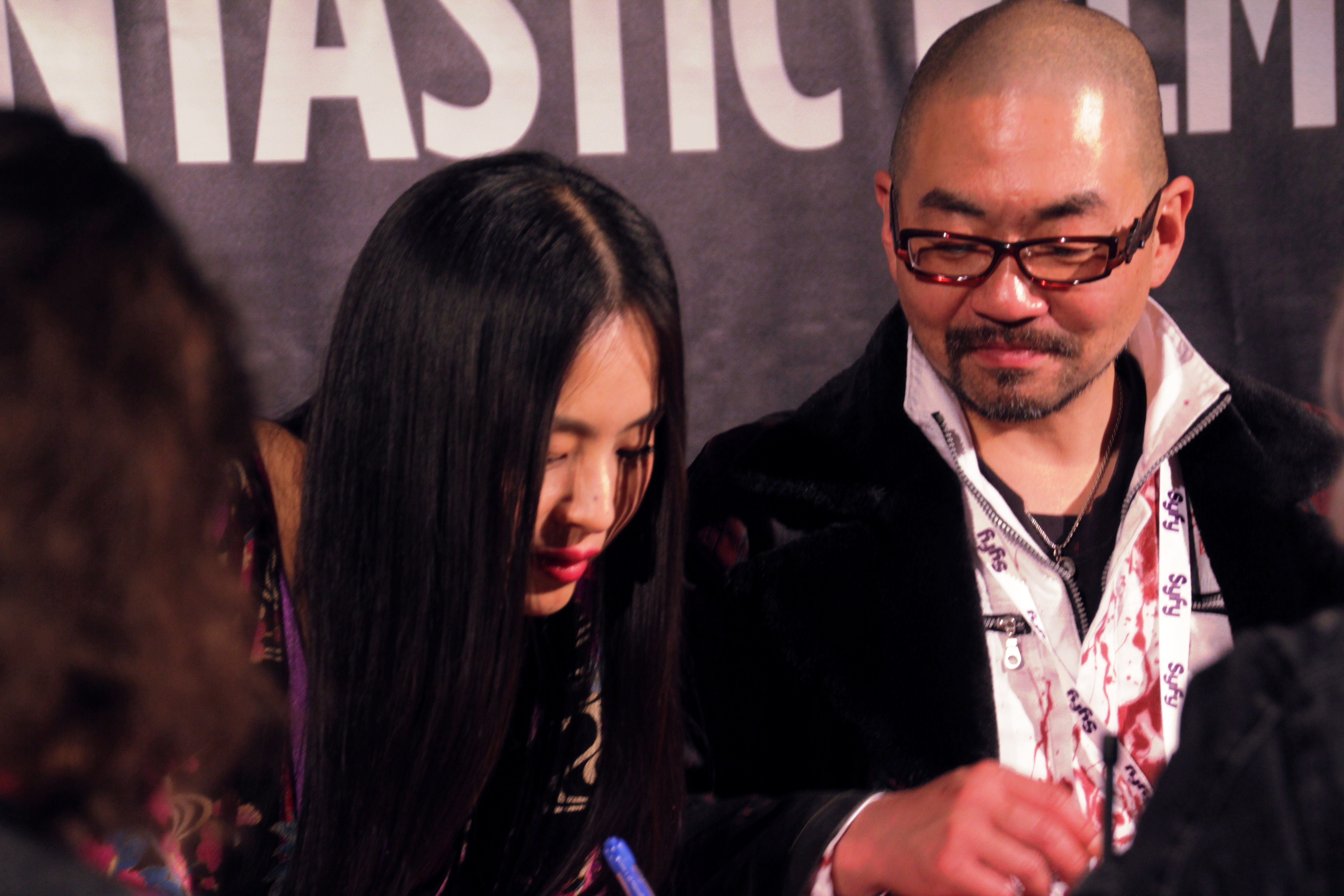 Yoshihiro Nishimura & Eihi Shiina signing autographs. I know the director liked it because he retweeted this picture later the next day from my Twitter